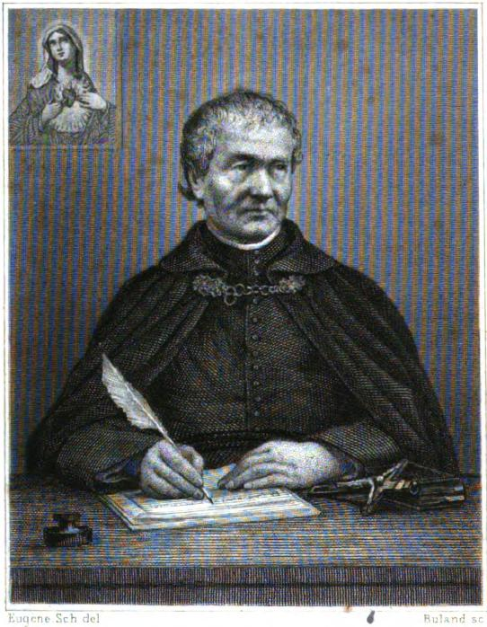 A lithograph of the Venerable Francis Libermann, with an image of the Immaculate Heart of Mary in the upper canton.